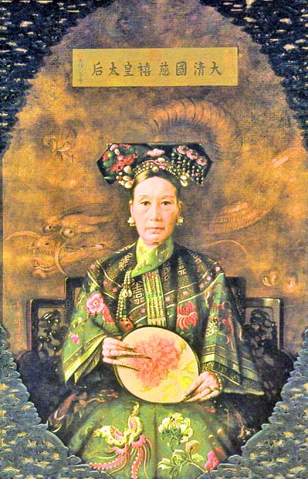 Dowager Empress Cixi]